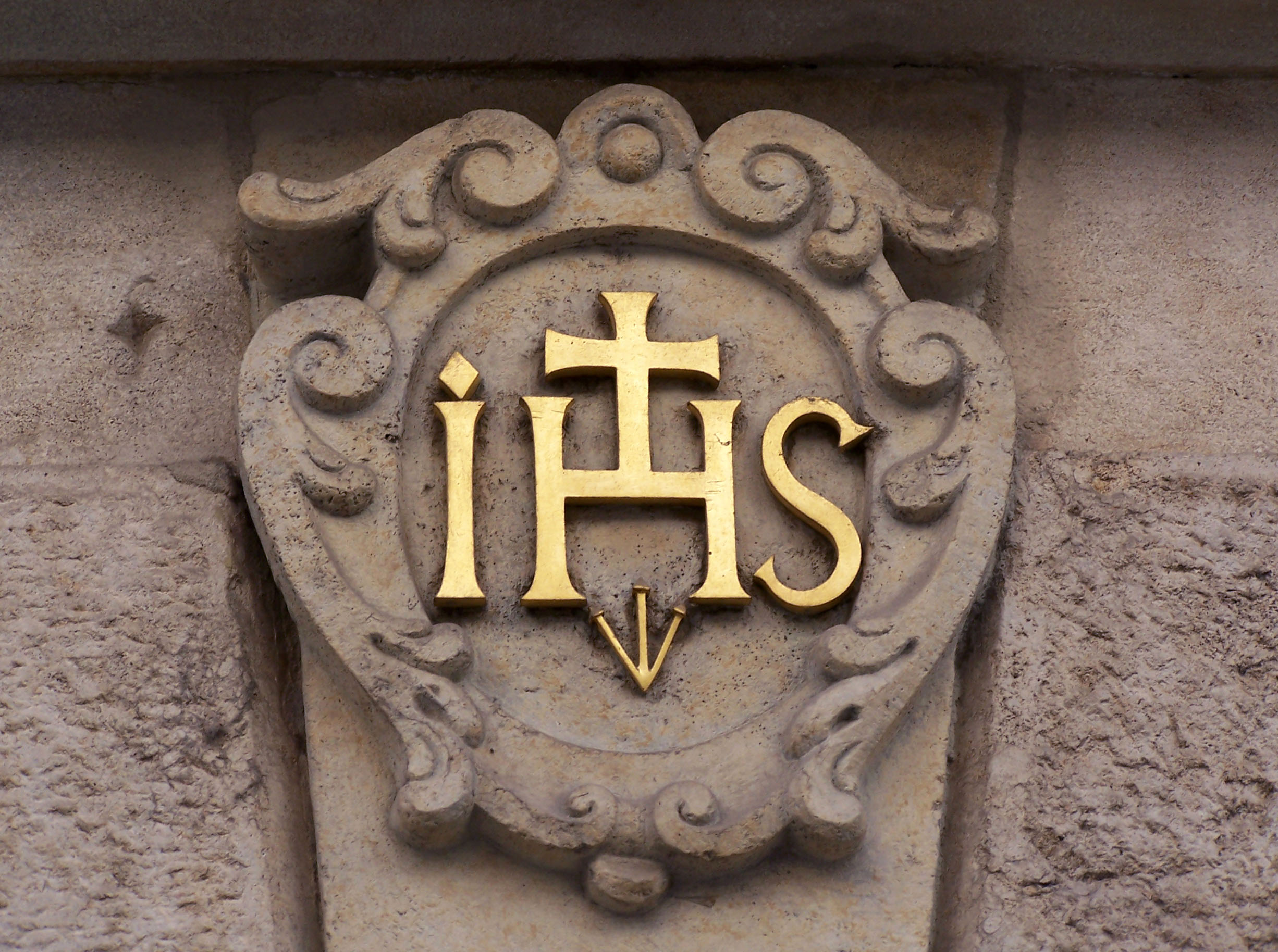 Christogram near the Old Town Hall in Brno, Czech Republic